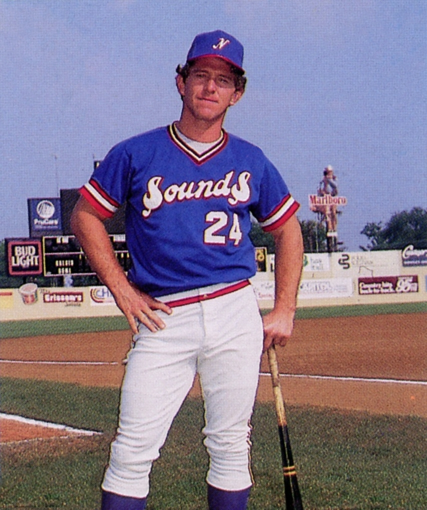 First baseman Scotti Madison of the 1986 Nashville Sounds Minor League Baseball team of the American Association